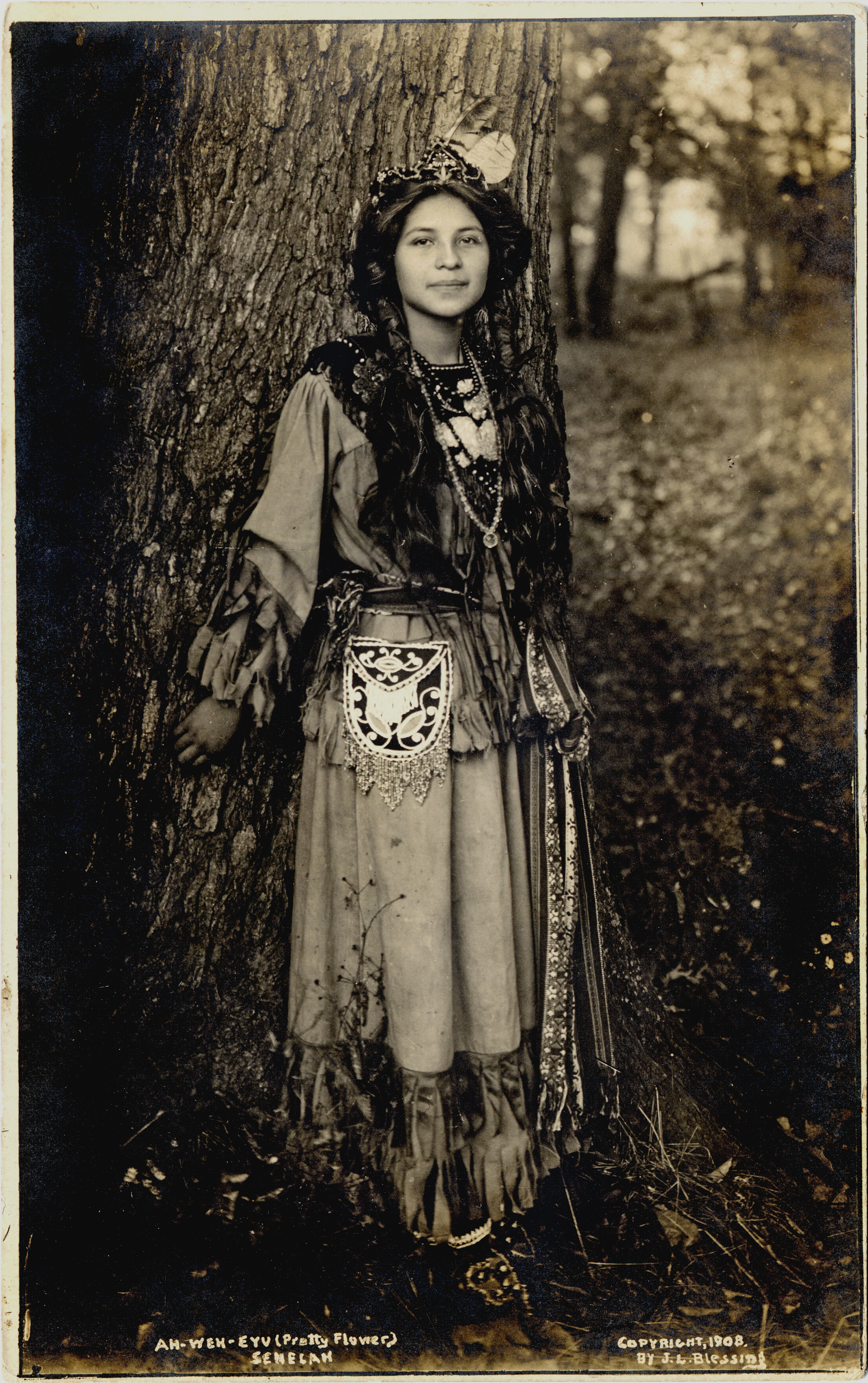 Ah-Weh-Eyu (Pretty Flower), Seneca people